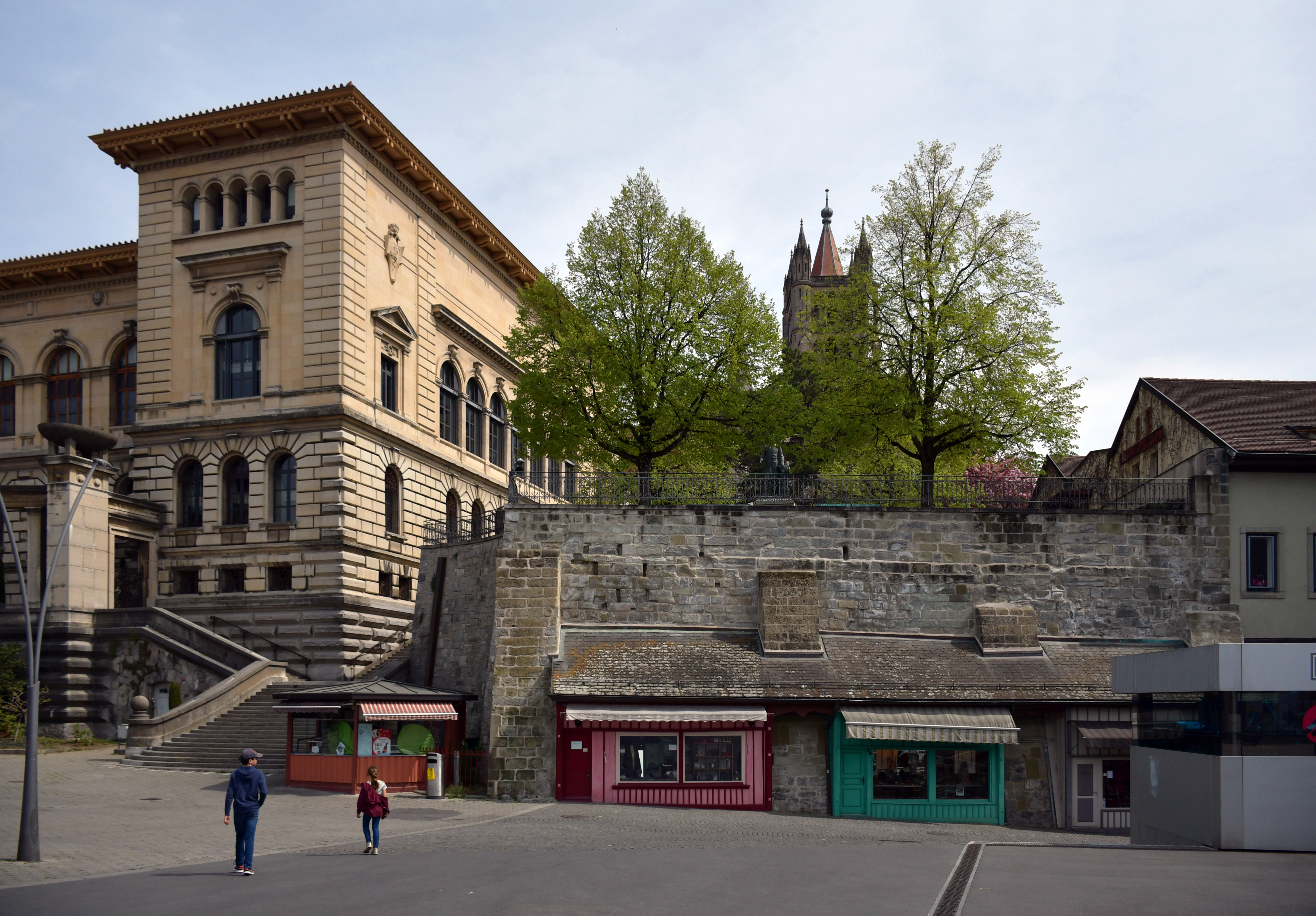 The Palais de Rumine (left), the retaining wall of the Place de la Madeleine and, in the background, the cathedral of Lausanne (Switzerland), seen from Place de la Riponne.